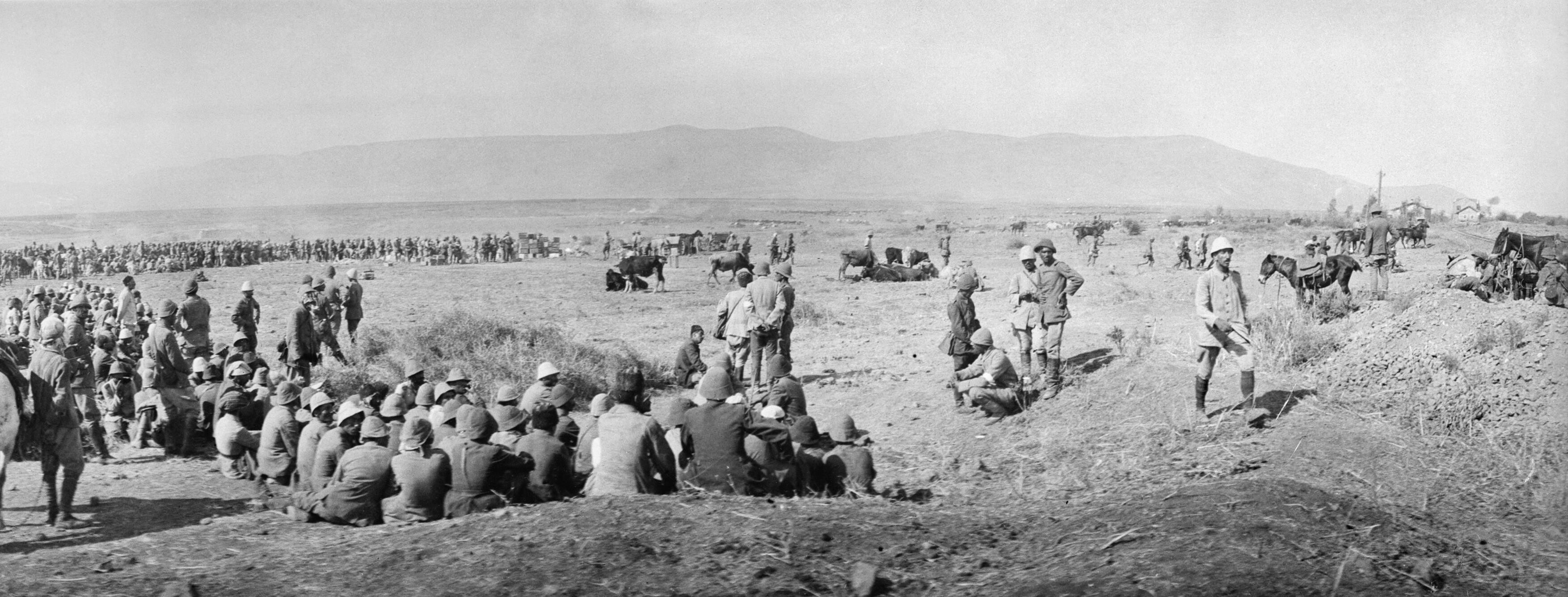 Photograph of 6,000 Ottoman prisoners being rationed at Beisan 24 September 1918. All in the foreground are officers. The Commander of the Turkish 16th Division is seated with a white arm band on the right. Prisoners are receiving rations in the centre and filing off to form a convoy.